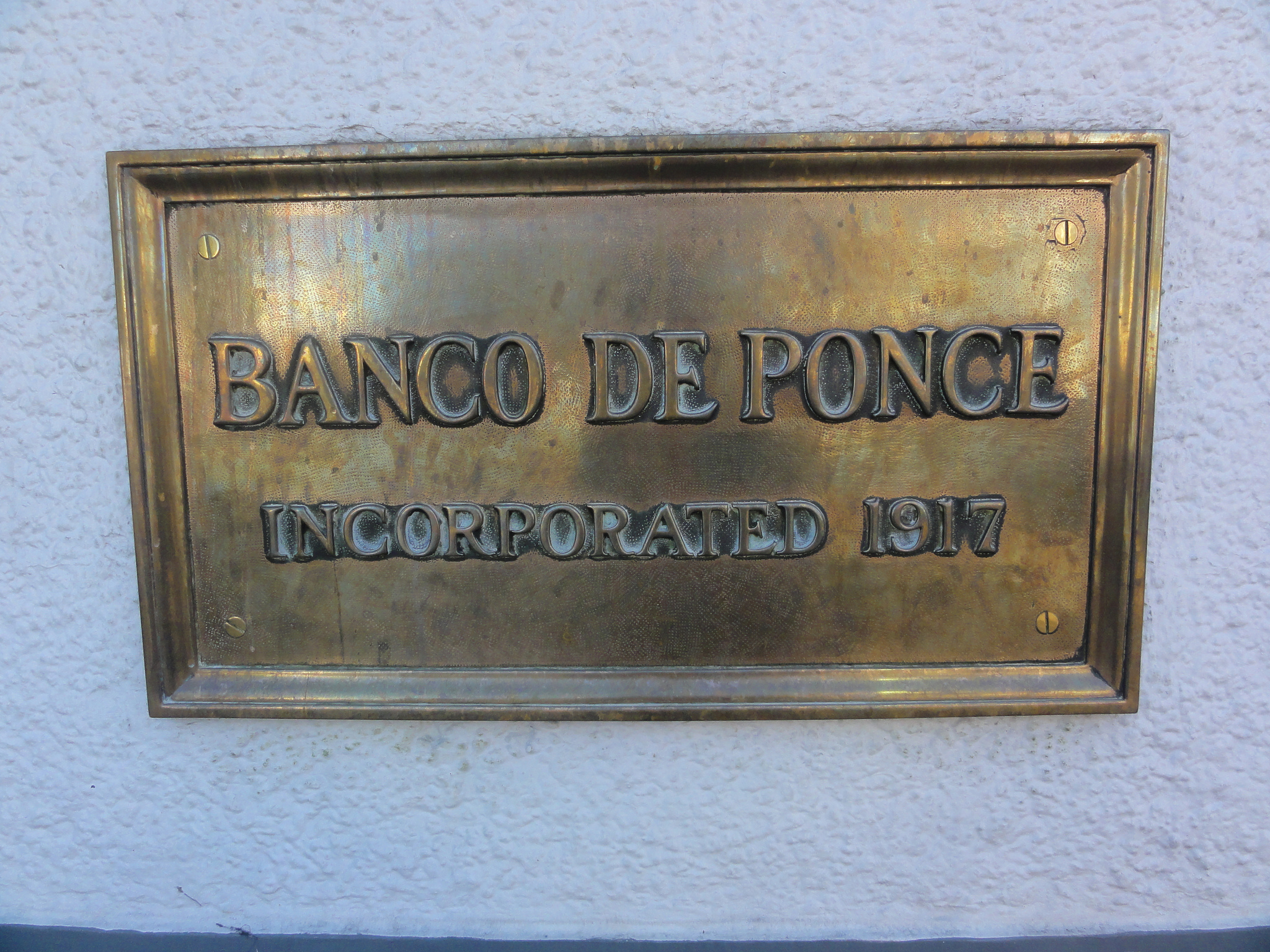 Plaque on the Banco de Ponce building at Marina and Comercio streets, in Ponce, Puerto Rico